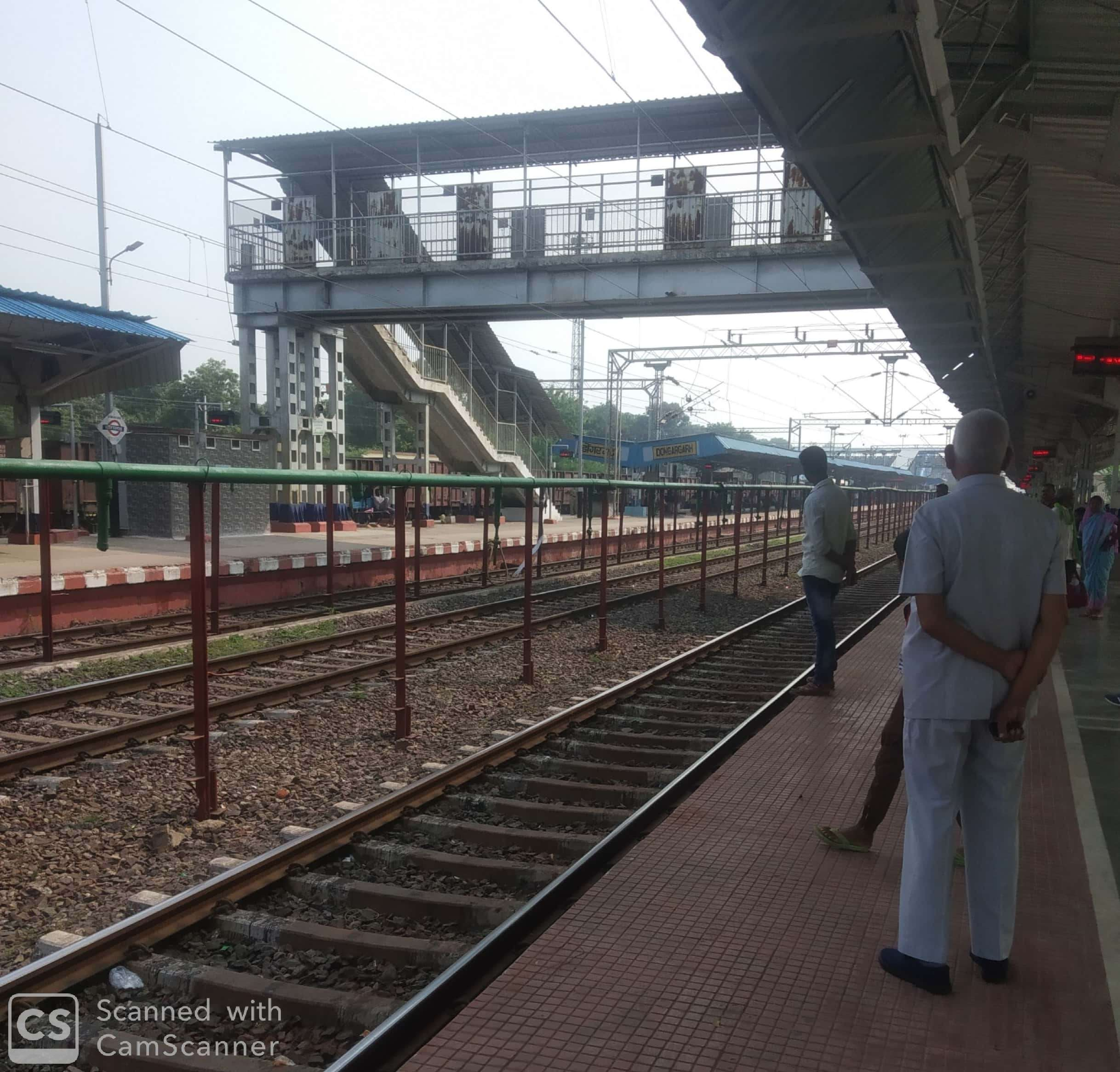 Pic of dongargarh station of platform no. 1